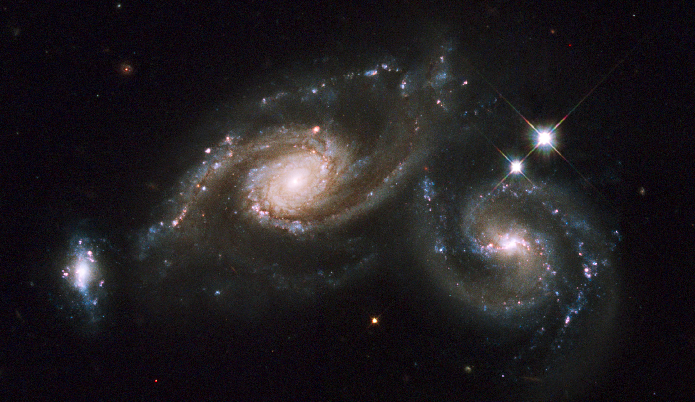 NGC 5679 Galaxy Group / Arp 274 NGC 5679 (center): Galaxy, type Sb, in Virgo Right Ascension (2000.0): 14:35:08.7 (h:m:s) Declination (2000.0): +05:21:33 (deg:m:s) Cross Identifications: NGC 5679B, UGC 9383, MCG 1-37-35, PGC 52132, KCPG 427B, IRAS14326+0534, ZWG 47.110, VV 458 NGC 5679A (right): Galaxy, type Sc, in Virgo Right Ascension (2000.0): 14:35:06.4 (h:m:s) Declination (2000.0): +05:21:23 (deg:m:s) Cross Identifications: MCG 1-37-34, VV 458, ARP 274, PGC 52130, KCPG 427A NGC 5679C (left): Galaxy, type C, in Virgo Right Ascension (2000.0): 14:35:11.0 (h:m:s) Declination (2000.0): +05:21:16 (deg:m:s) Cross Identifications: ARP 274, VV 458, PGC 52129 (Revised NGC Data for NGC 5679)